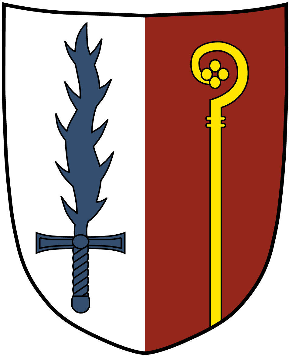 Former Coats of arms from Götting